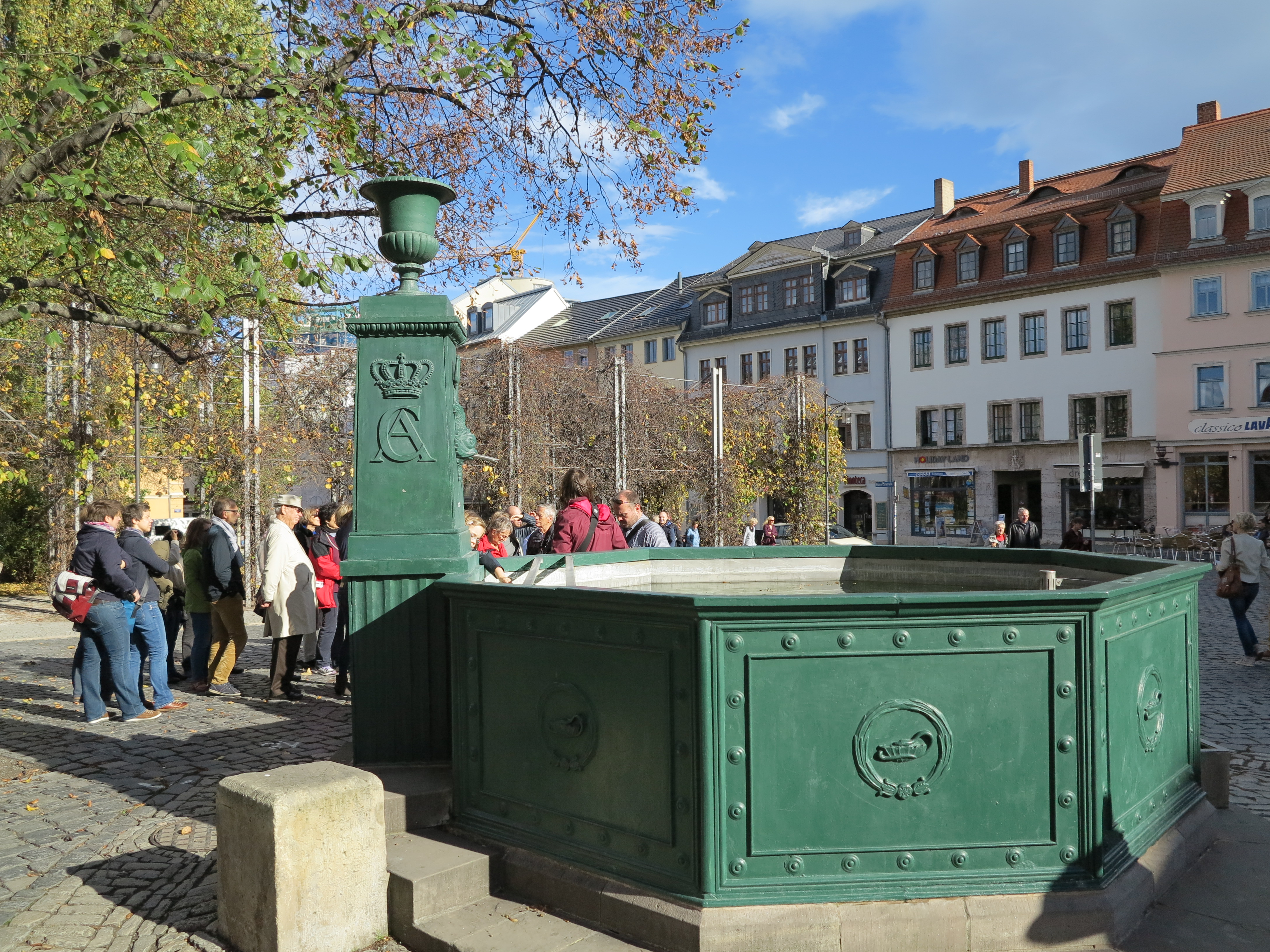 Johann Wolfgang von Goethe Spring by Clemens Wenzeslaus Coudray at Frauenplan in Weimar, Thuringia, Germany